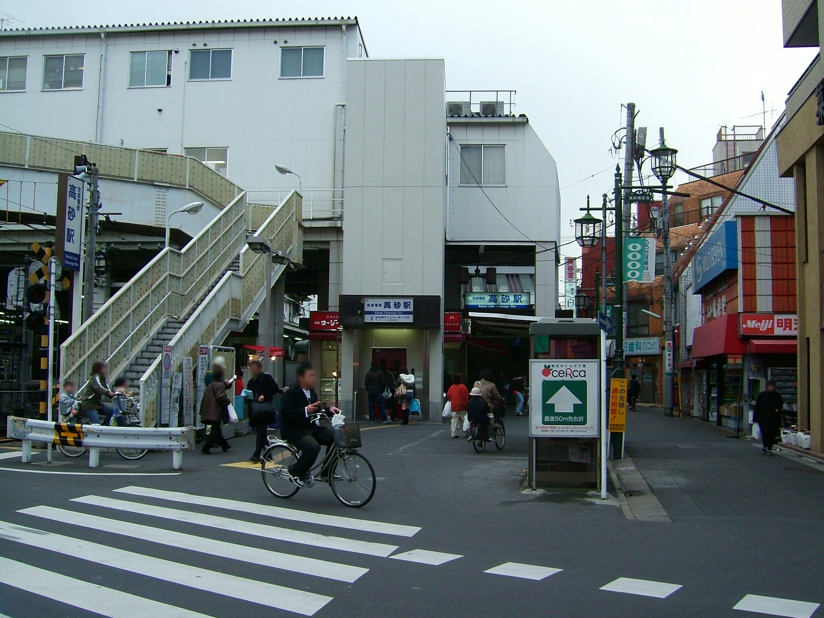 The north entrance to Keisei Takasago Station on the Keisei Main Line and Hokusō Railway Hokusō Line in Katsushika city, Tokyo, Japan